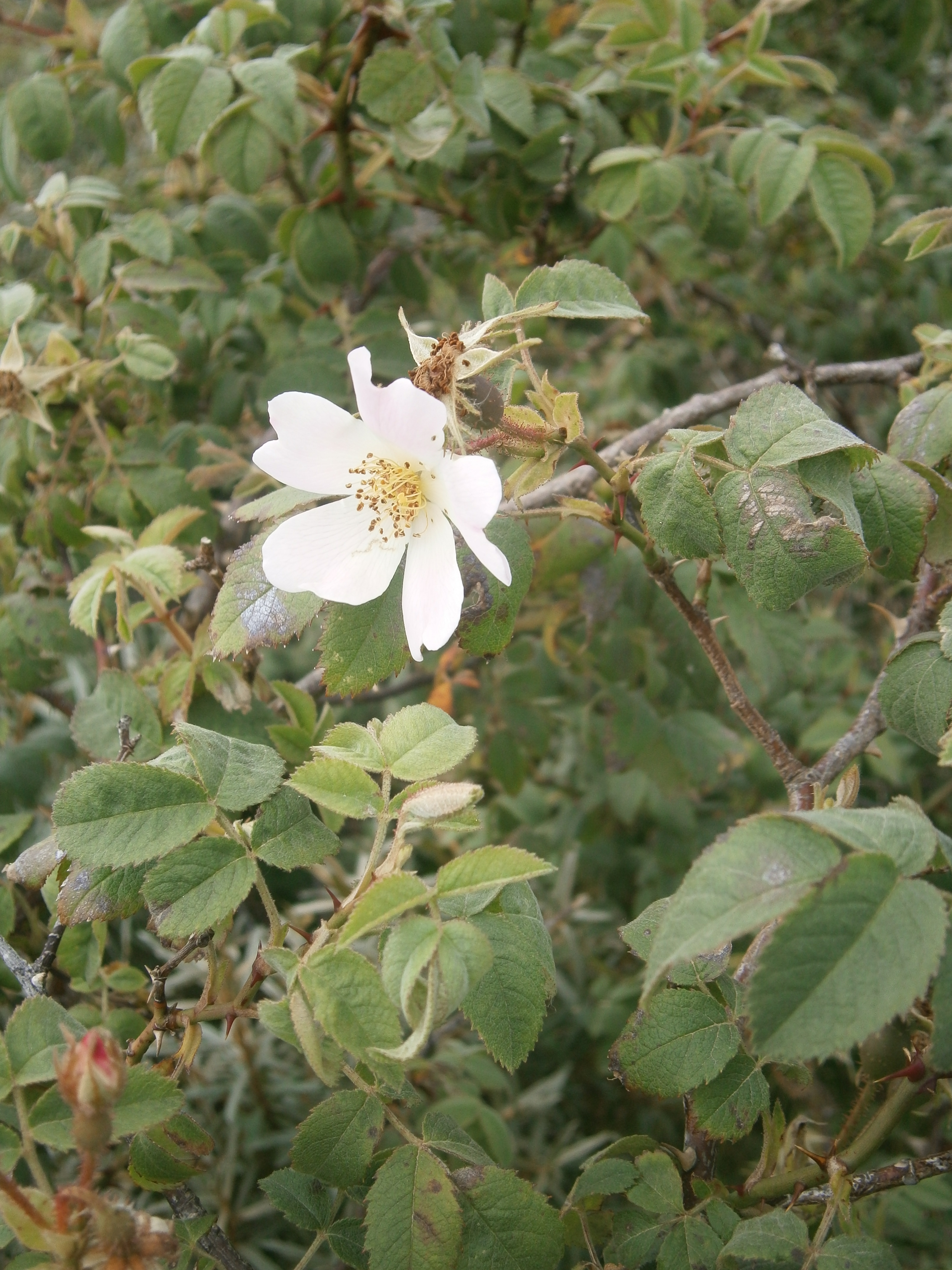 Rosa tomentosa in the dunes (Cadzand, NL)